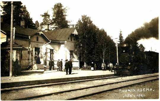 Ruukki old railway station in Paavola (now part of Siikajoki), Finland, in 1921.